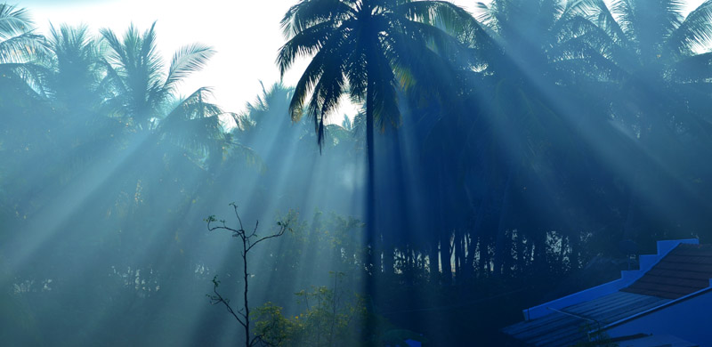 RAYS FROM HEAVEN